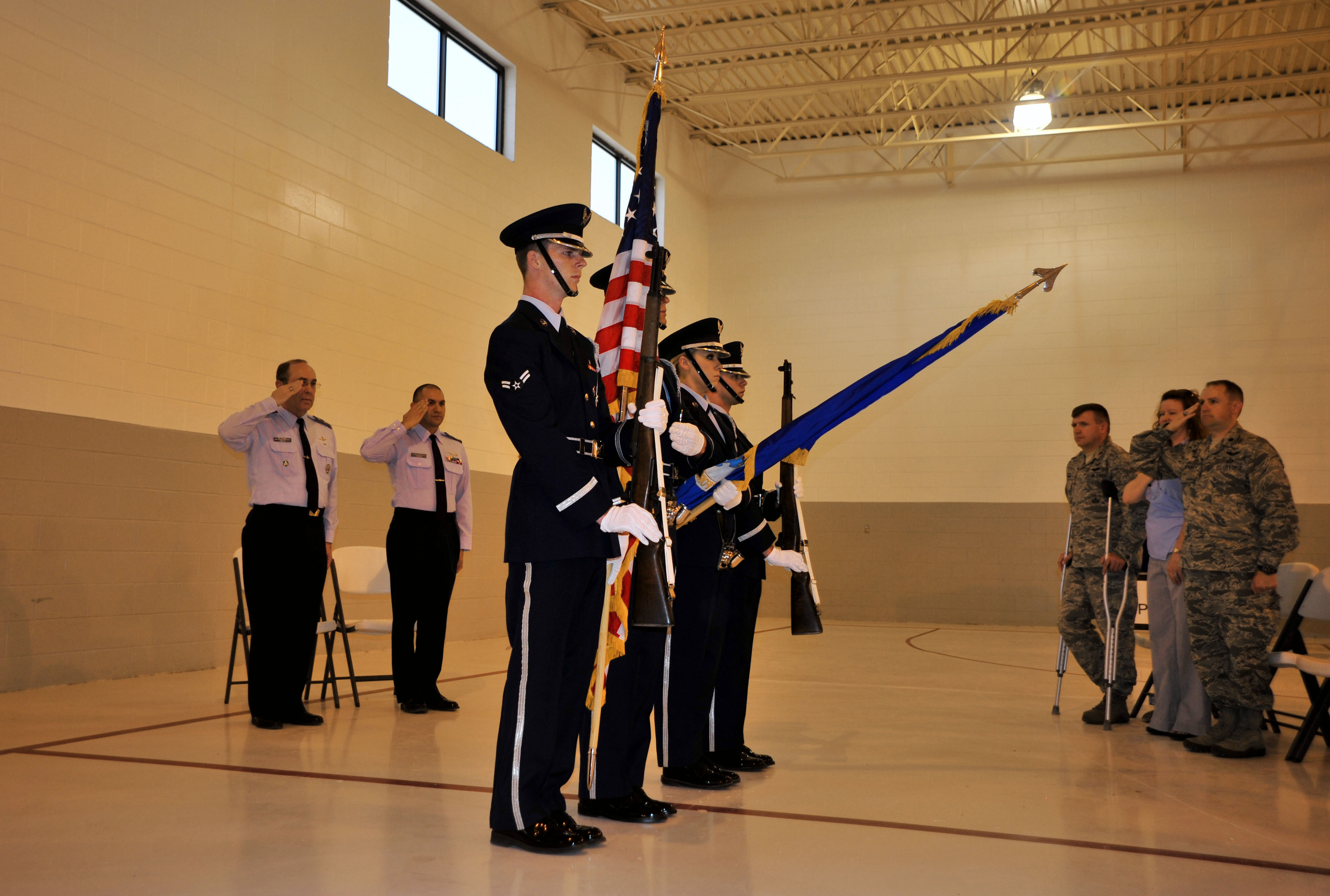 Members of the Civil Air Patrol and U.S. Air Force render a salute as honor guardsmen from Cannon Air Force Base, N.M., present the colors during the CAP Clovis High Plains Composite Squadron change of command, May 28, 2013. The CAP organization was established as the official auxiliary of the Air Force in 1948 and charged with three primary mission areas: aerospace education, cadet programs and emergency services. (U.S. Air Force photo/Senior Airman Whitney Tucker)